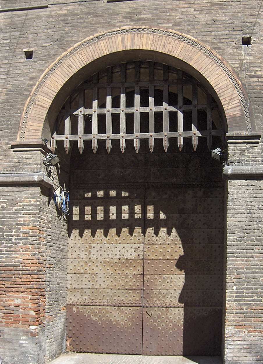 Gate with portcullis; backside of the Palazzo d'Accursio, Bologna, Italy